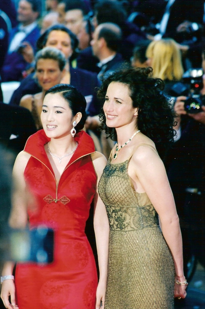 Gong Li and Andie MacDowell at Cannes Film Festival